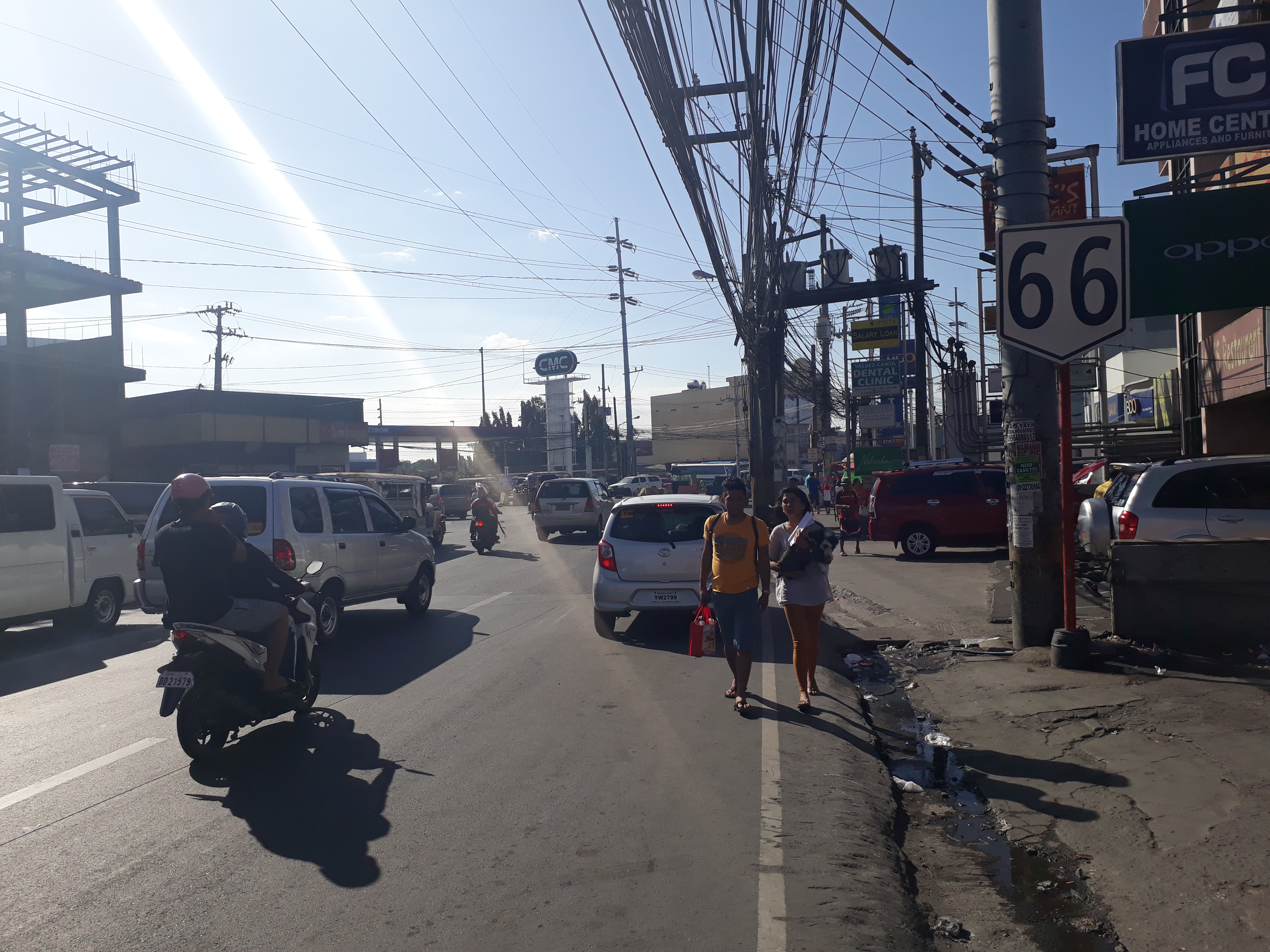 Old National Highway (Route 66) in Calamba, Laguna